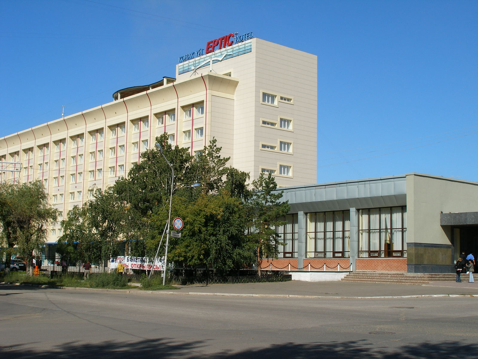 «Irtysh» hotel building, Pavlodar city, Kazakhstan